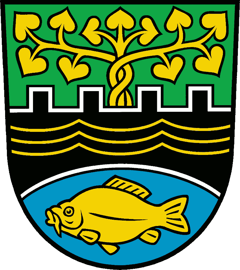 granted 24 août 2000.